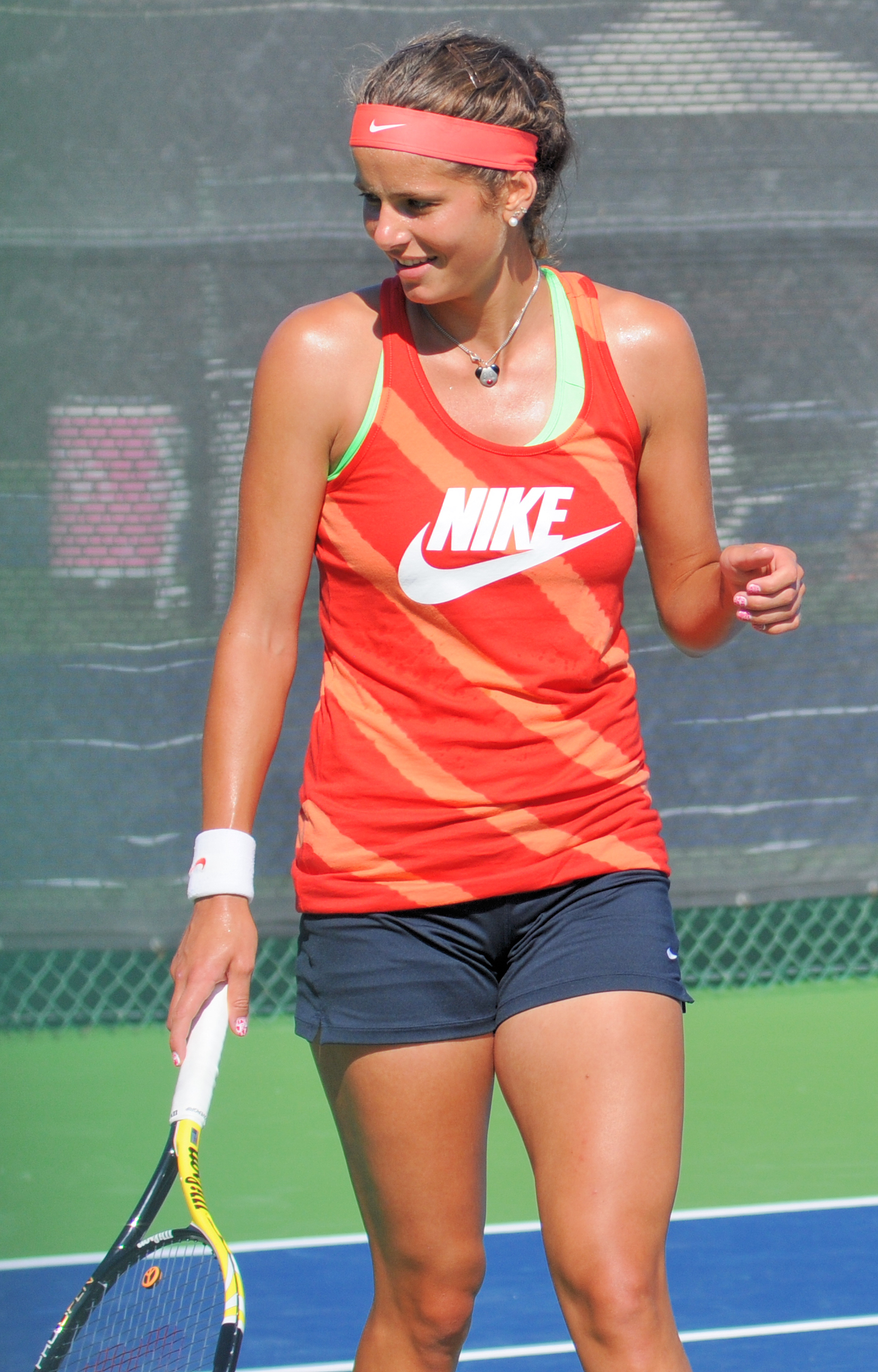 Julia Goerges Mercury Insurance Tennis Open 2011